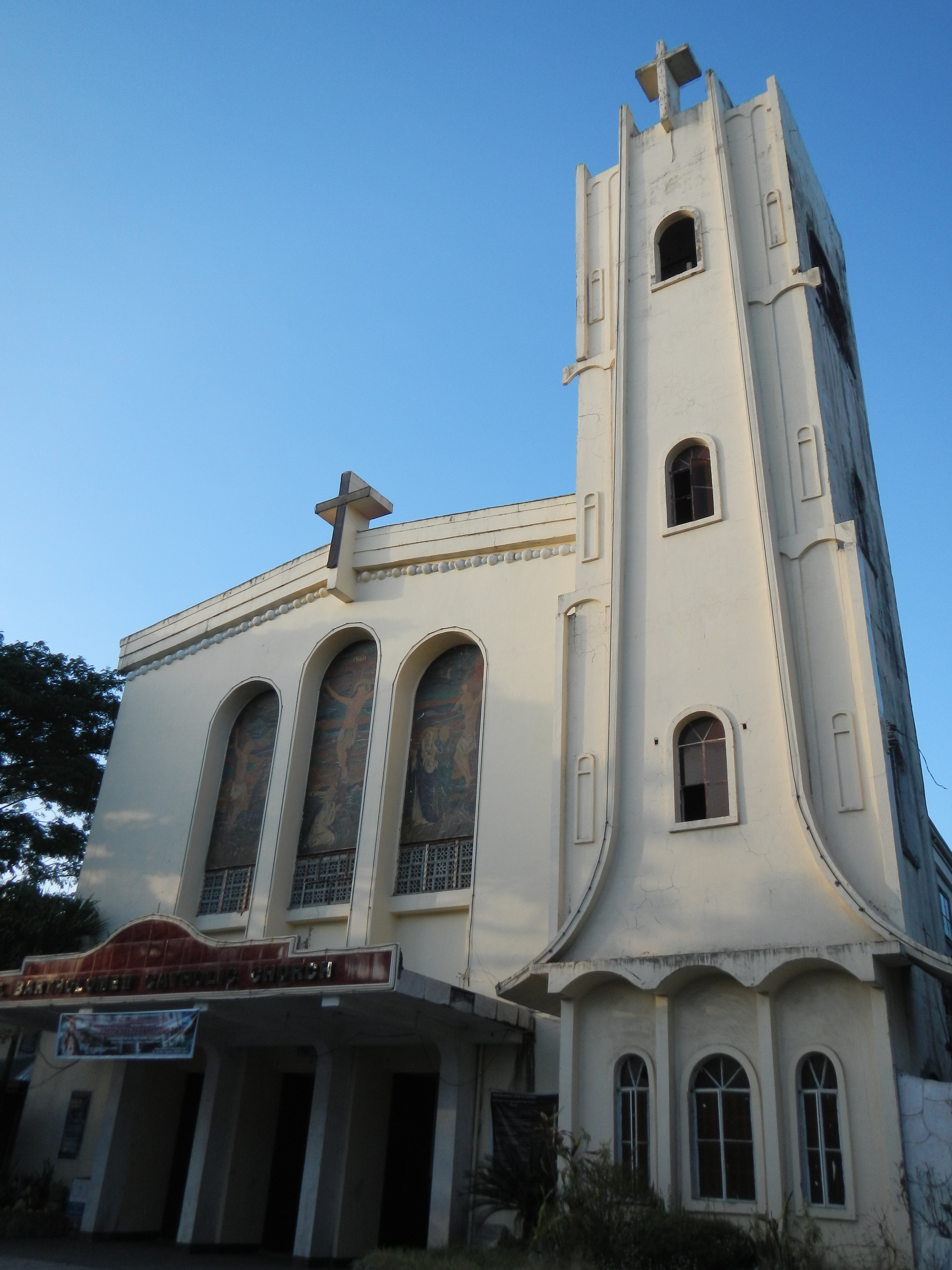 1687 St. Bartholomew Parish Church (Roman Catholic Archdiocese of Lingayen-Dagupan[1]Rizal, San Manuel, Central Pangasinan, Philippines Phone: +63(75)5653249 [2]) San Manuel, Pangasinan[3]